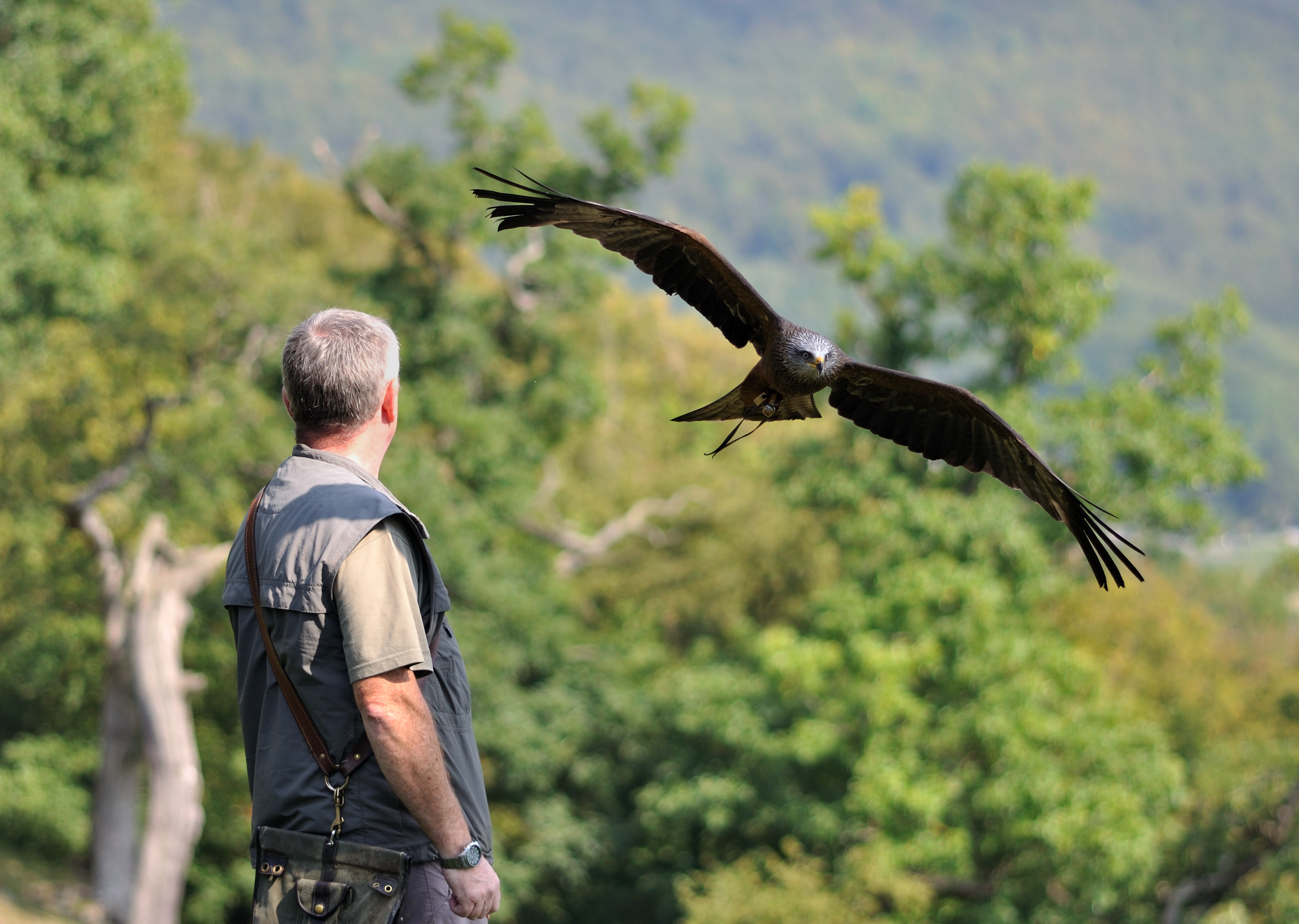 Flying Black Kite (Milvus migrans) in the falconry Wildpark Edersee, Germany.